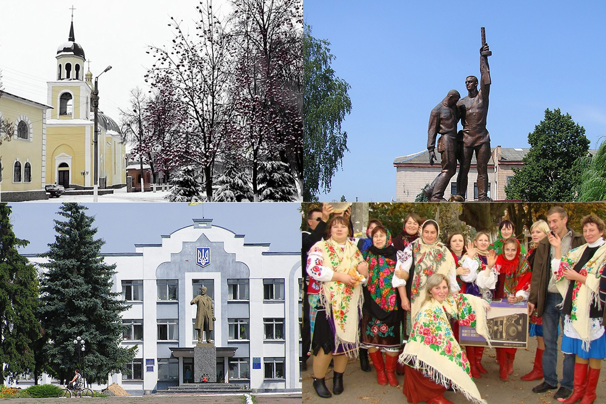 Borzna, Ukraine (collage)